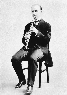 Gustave LangenusN.Y. Symphony Orchestra